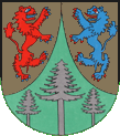 Coat of Arms of Donndorf